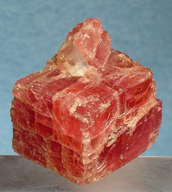 Rhodochrosite Locality: Emma Mine (Ancient Mine; Black Chief Mine), Butte, Butte District, Silver Bow County, Montana, USA (Locality at ) Size: 2.7 x 2.2 x 2.0 cm. An old-time, highly lustrous, gemmy/translucent, rose-red rhodochrosite rhomb from the Emma Mine at Butte, Montana. The crystal is interestingly capped by a smaller rhodochrosite with a quartz crystal. Some of the sides may be cleavages, it is hard to tell. This is a highly representative, extremely gemmy and classic rhodochrosite from this renowned locale. Ex. John Ydren Collection.